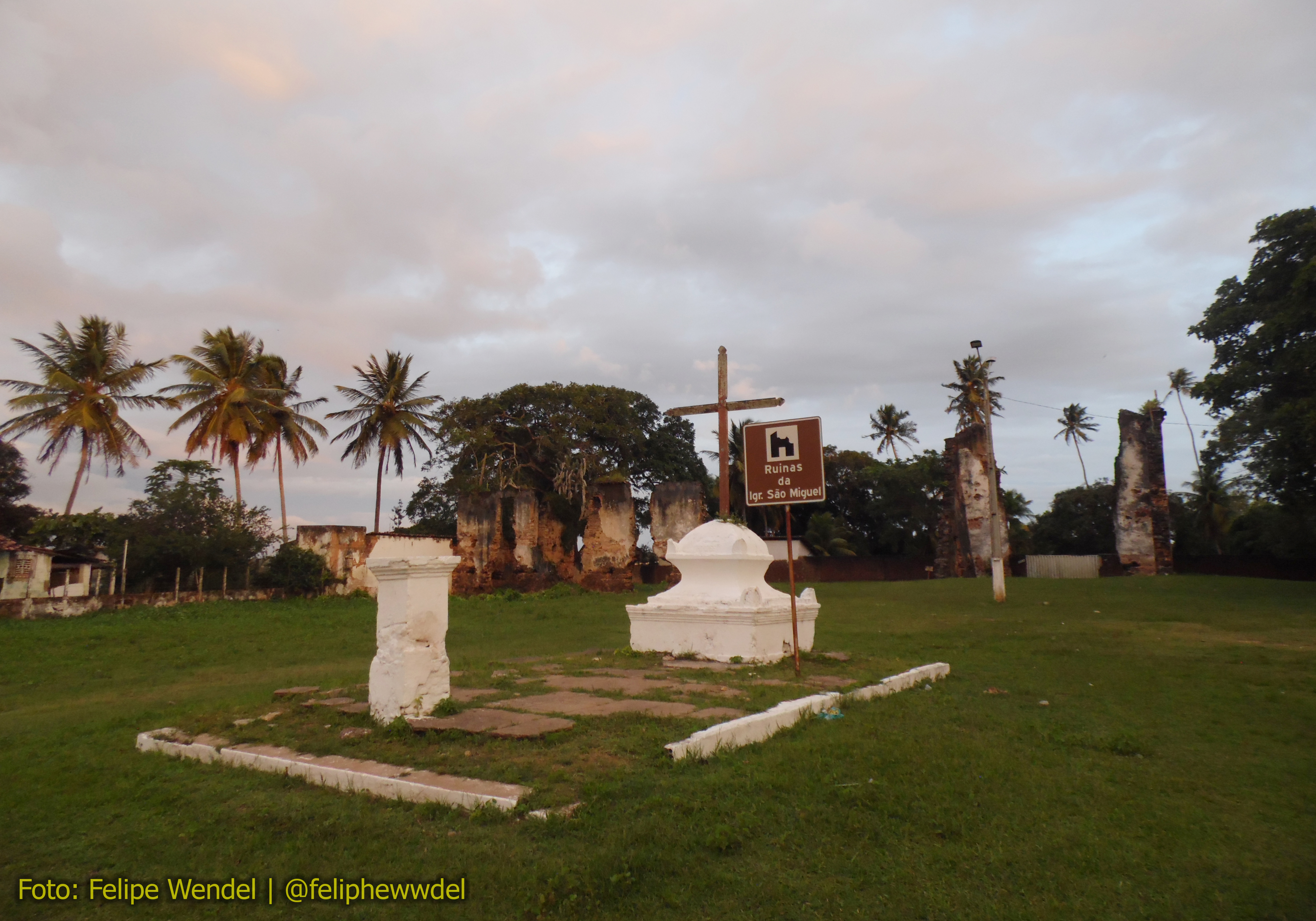 Ruins of old Church of São Miguel in Extremoz city - Rio Grande do Norte - Brazil.